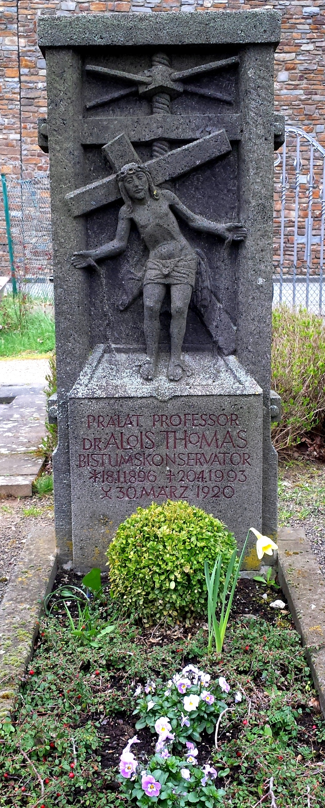 Grave of Alois Thomas in Klotten